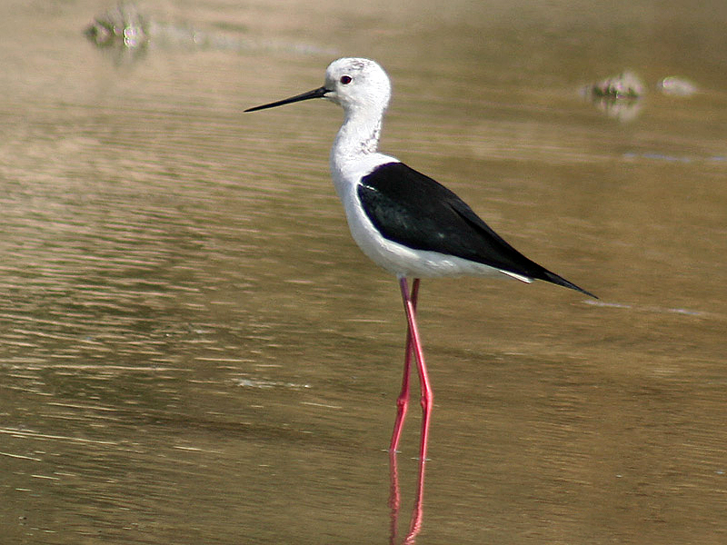 Black-winged Stilt Himantopus himantopus Adult at Hodal in Faridabad District of Haryana, India.